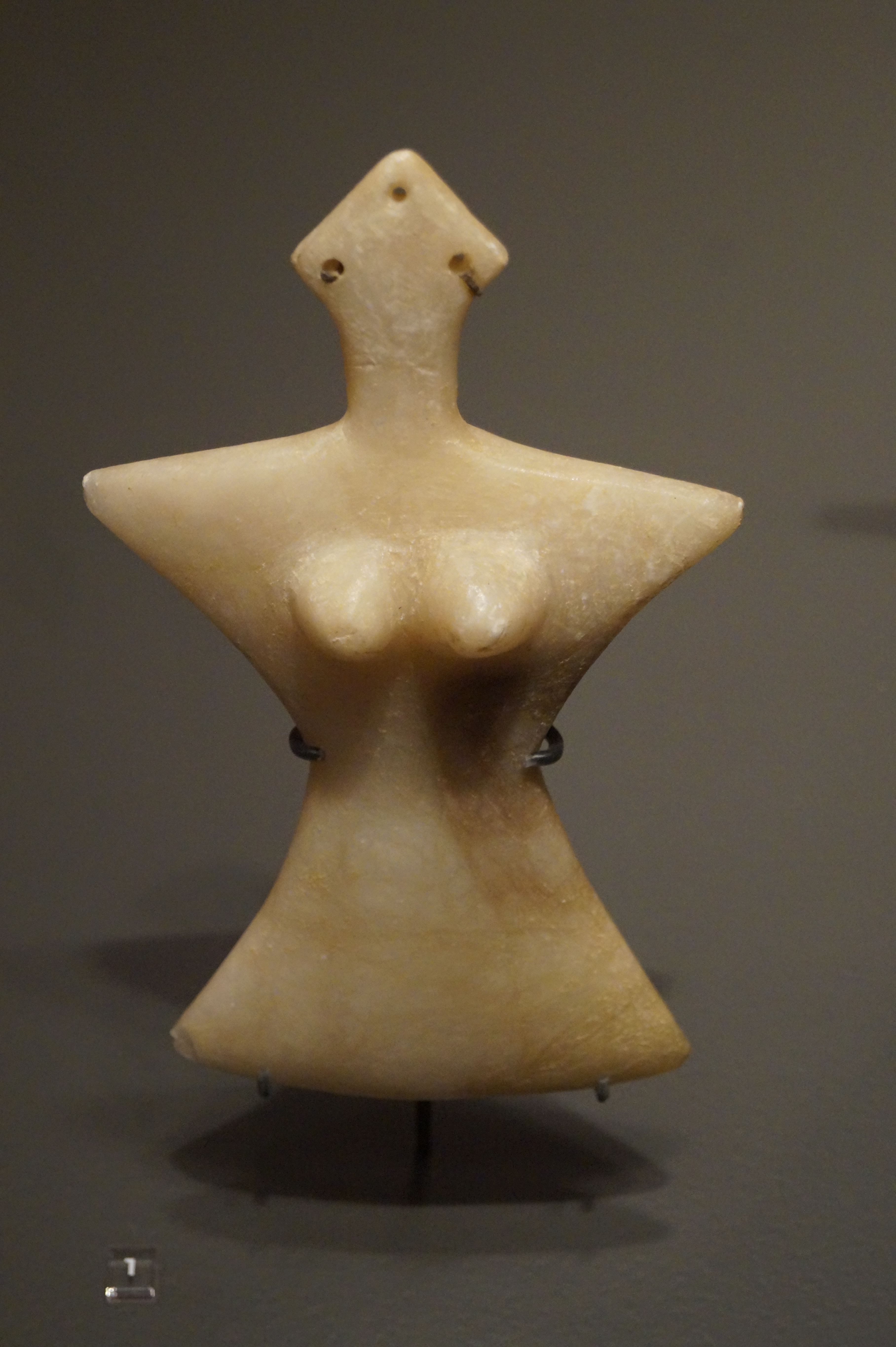 Alabaster figurine from Iran, Tepe Hissar Layer III, 2300-1900 BC